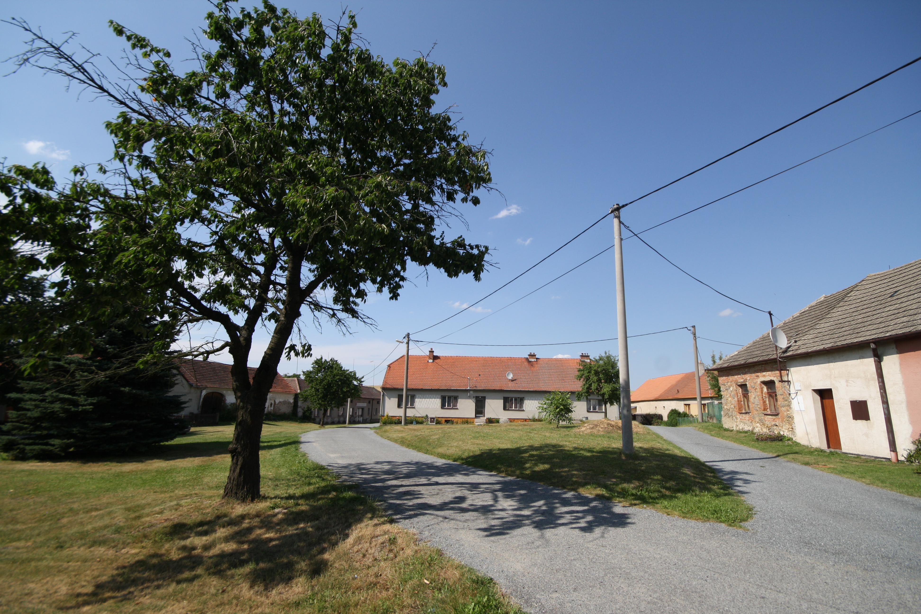 Village square of Smrk, Třebíč District.